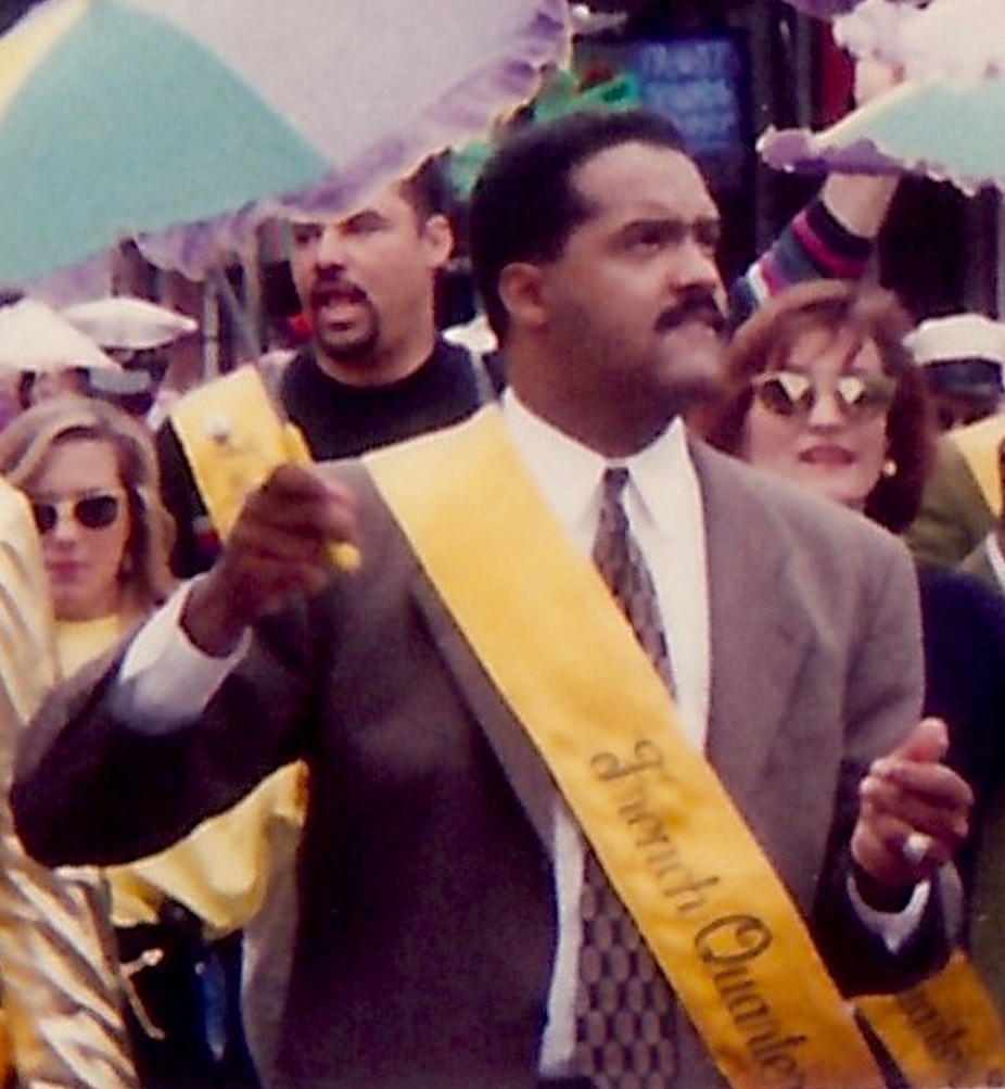 French Quarter Festival, New Orleans. Local politician Troy Carter, then City Councilman, in opening parade.